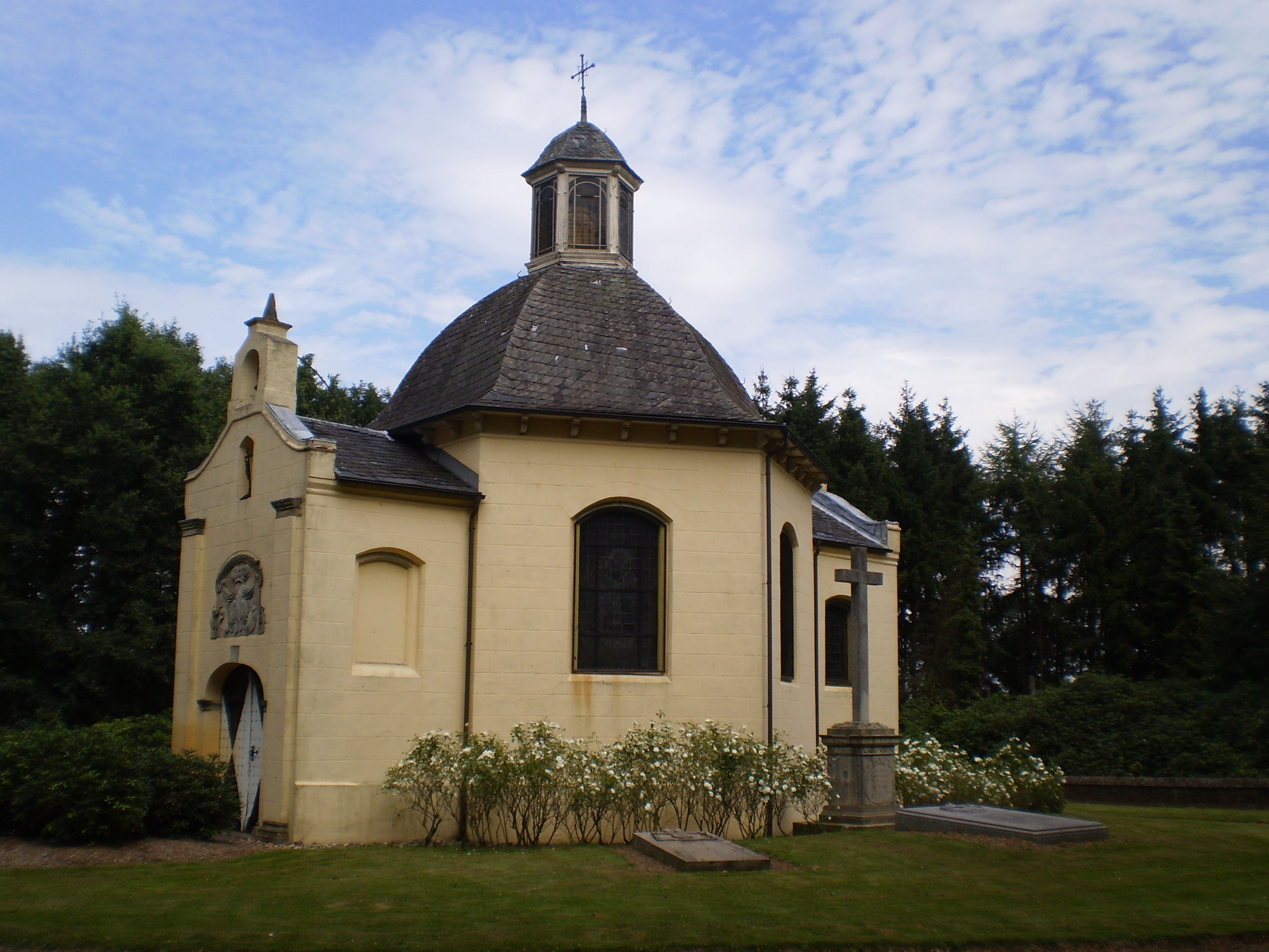 Royal tomb chapel of Salm-Salm family near Isselburg-Anholt (Germany)